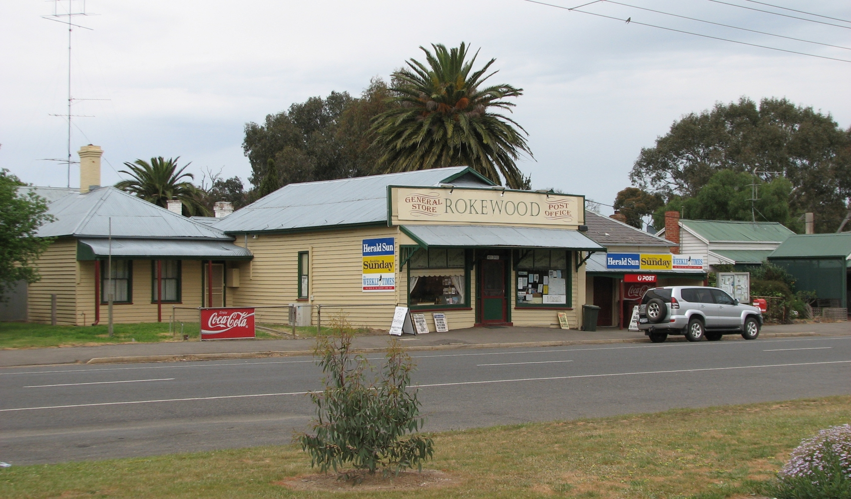 Streetscape, Rokewood, Victoria, Australia